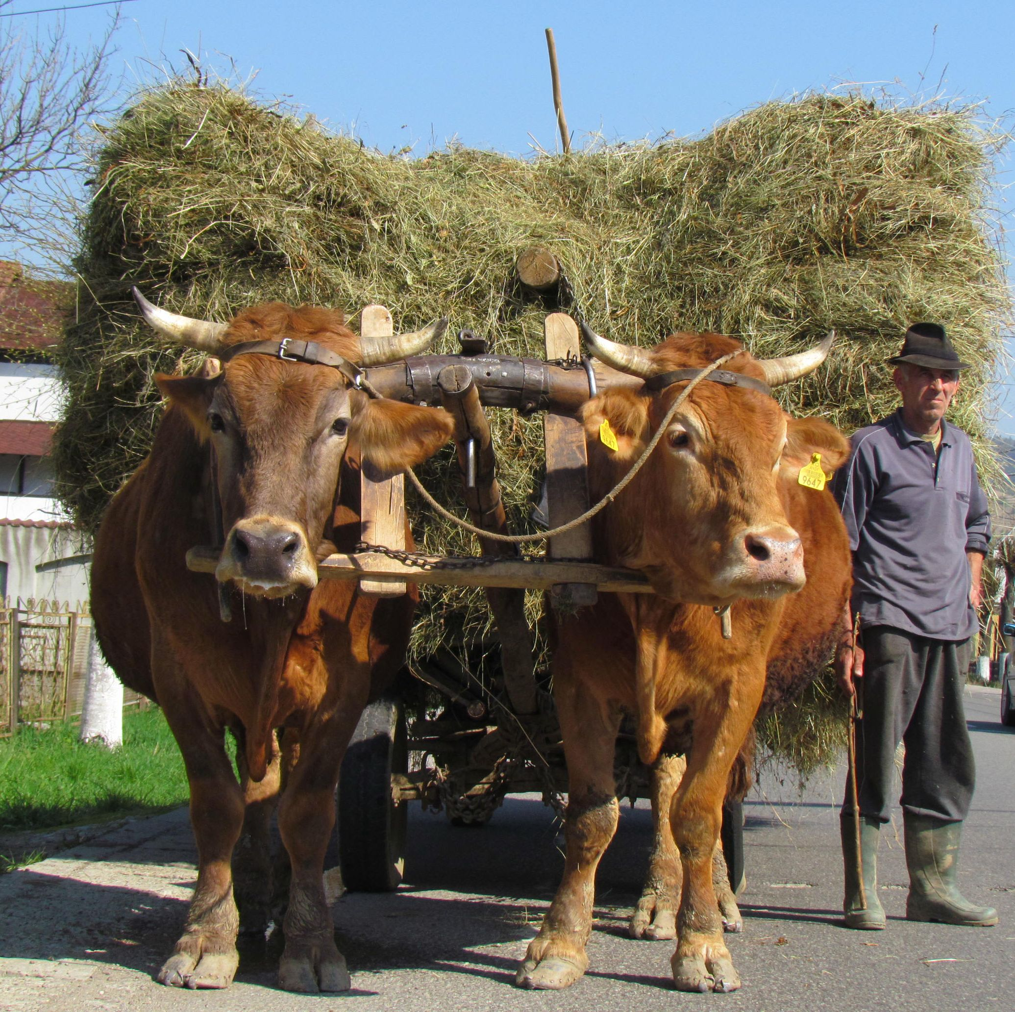 Harnessed team of oxen in Romania (Bruna de Maramureş breed), Romania.